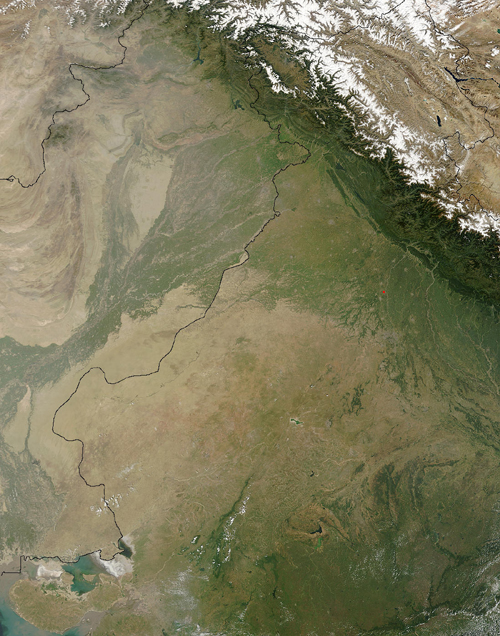 A NASA satellite image of the Thar Desert, with the India-Pakistan border superimposed. The desert is at the center left of the image; the Indus River and its tributaries are to the left side of the desert, and the dark green line at the bottom center of the image is the Aravalli Range.